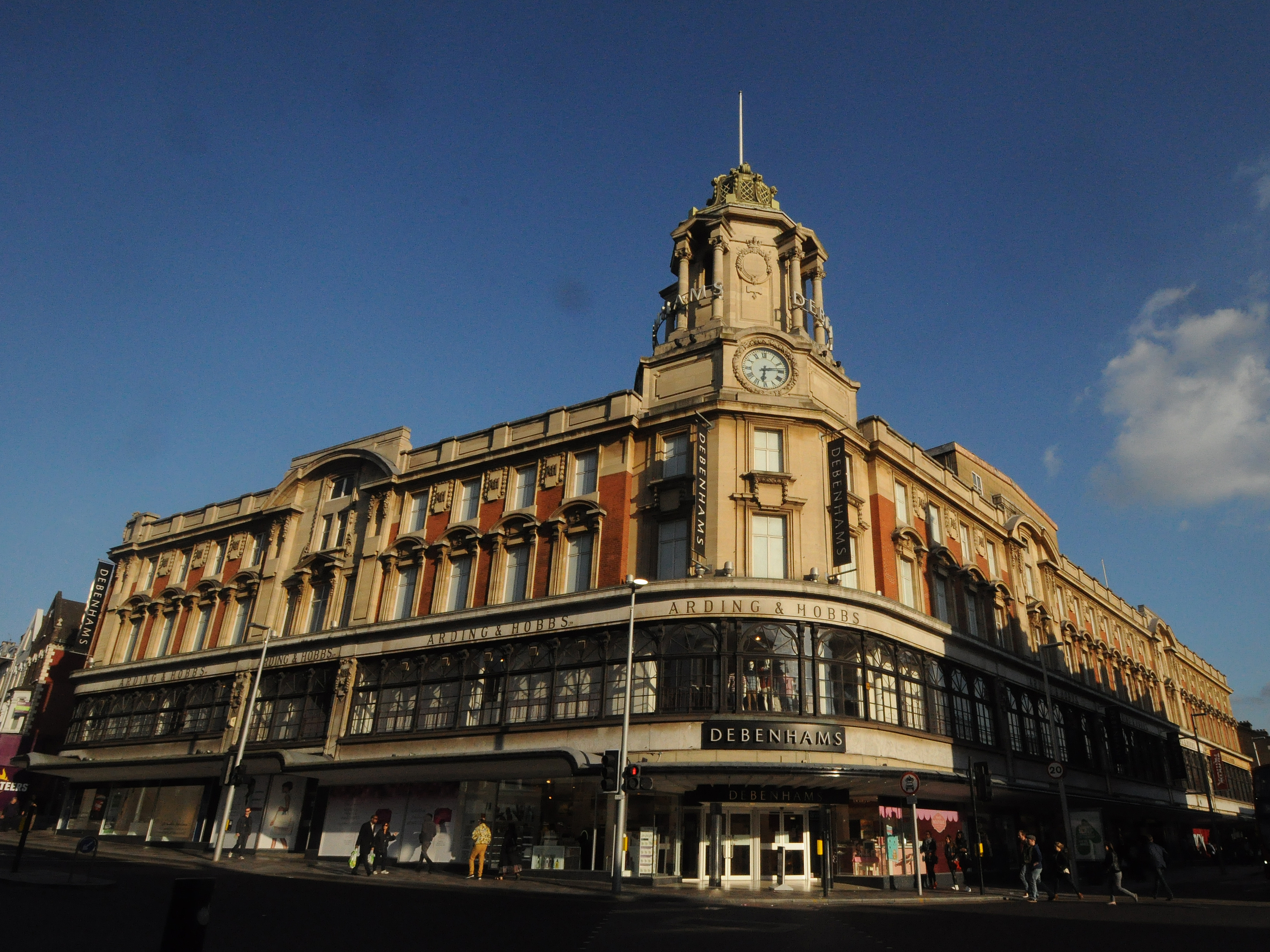 (Former) Arding and Hobbs store, Lavender Hill, Battersea. Grade II listed (1389528).